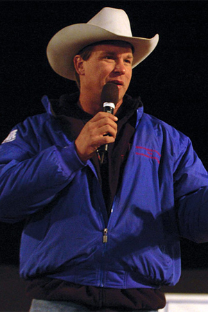 Cropped from Public Domain image Image:John_Bradshaw_Layfield.jpg